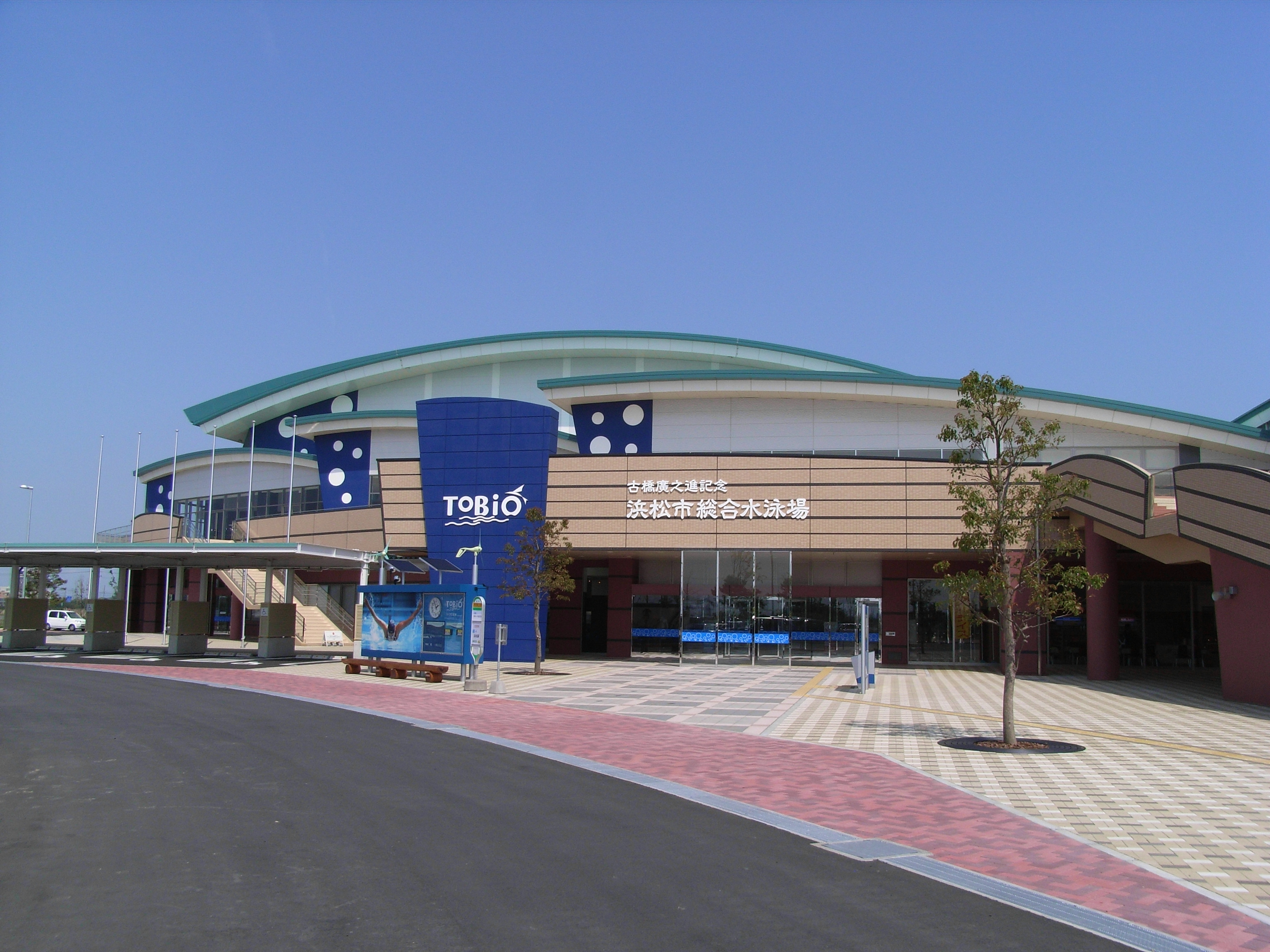 FURUHASHI Hironoshin Memorial Hamamatsu Swimming Center "ToBiO"